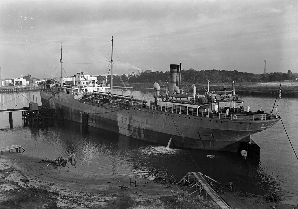 Title: Gen'l. Amer. Tank Storage, Houston Alternative Title: [General American Tank Storage, Houston] Creator: Robert Yarnall Richie Date: November 1938 Part Of: Robert Yarnall Richie Photograph Collection Place: Houston, Texas Physical Description: 1 negative: film, black and white; 13 x 18 cm. File: ag1982_0234_1912_11_genlamertank_sm_opt.jpg Rights: Please cite DeGolyer Library, Southern Methodist University when using this file. A high-resolution version of this file may be obtained for a fee. For details see the web page. For other information, . For more information and to view the image in high resolution, View the Robert Yarnall Richie photograph collection